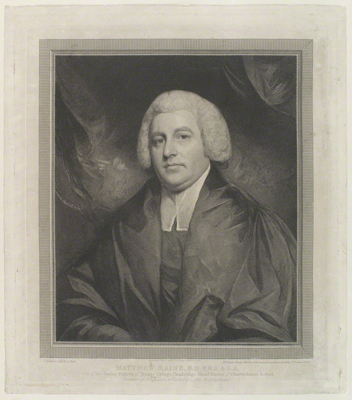 Portrait of Matthew Raine (1760–1811), English schoolmaster and cleric.